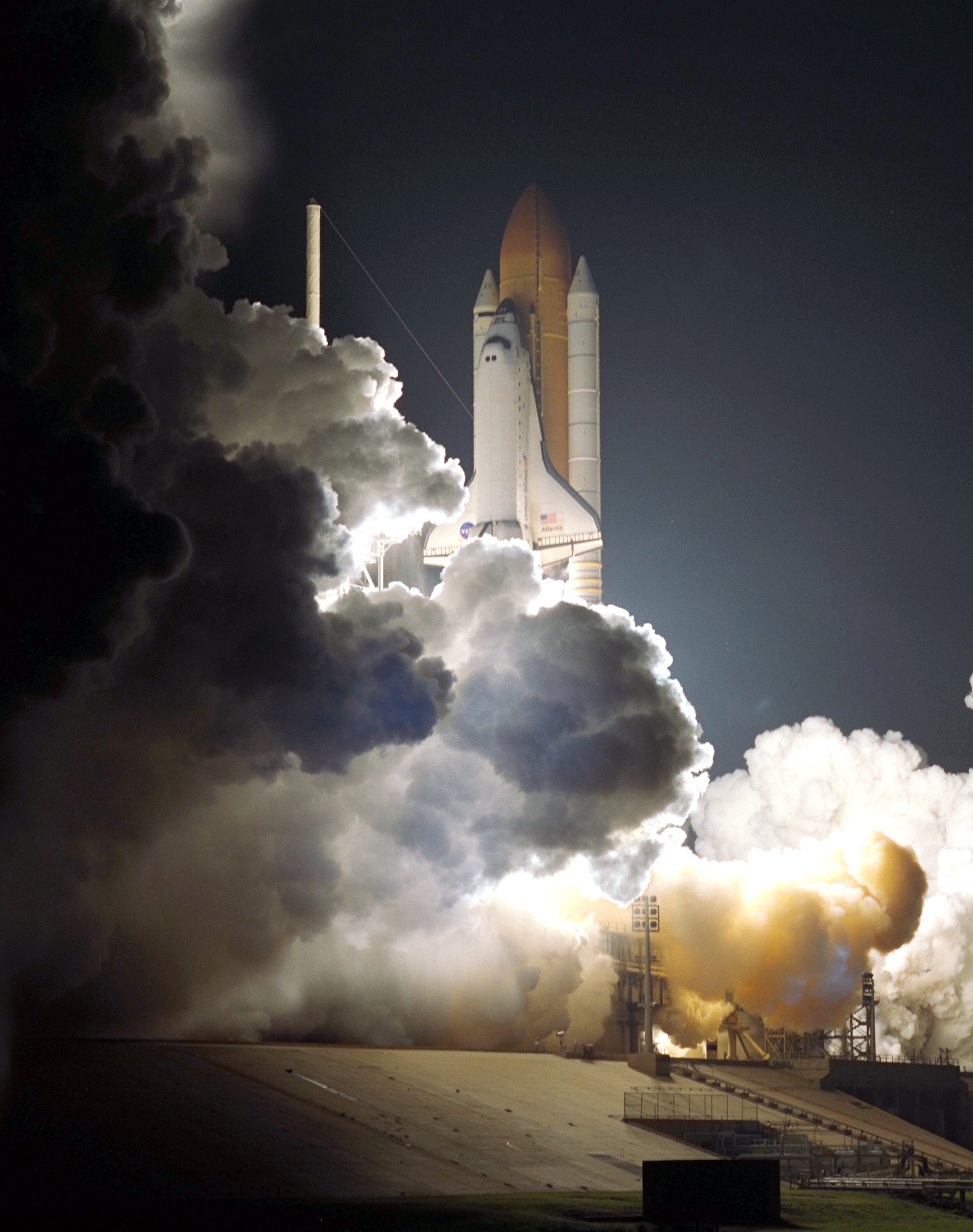 Atlantis STS-104 launch on July 12, 2001 original description: KSC-01PP-1285 (12 July 2001) --- Billows of smoke and steam surround Space Shuttle Atlantis as it blasts into the pre-dawn sky on mission STS-104. Atlantis lifted off from Launch Pad 39B on time at 5:03:59 a.m. EDT. The 10th assembly flight to the International Space Station, the mission is delivering the joint airlock module, which will require two spacewalks to attach it to the Space Station. The airlock will be the primary path for Space Station spacewalk entry and departure for U.S. spacesuits, and will also support the Russian Orlan spacesuit for EVA activity.